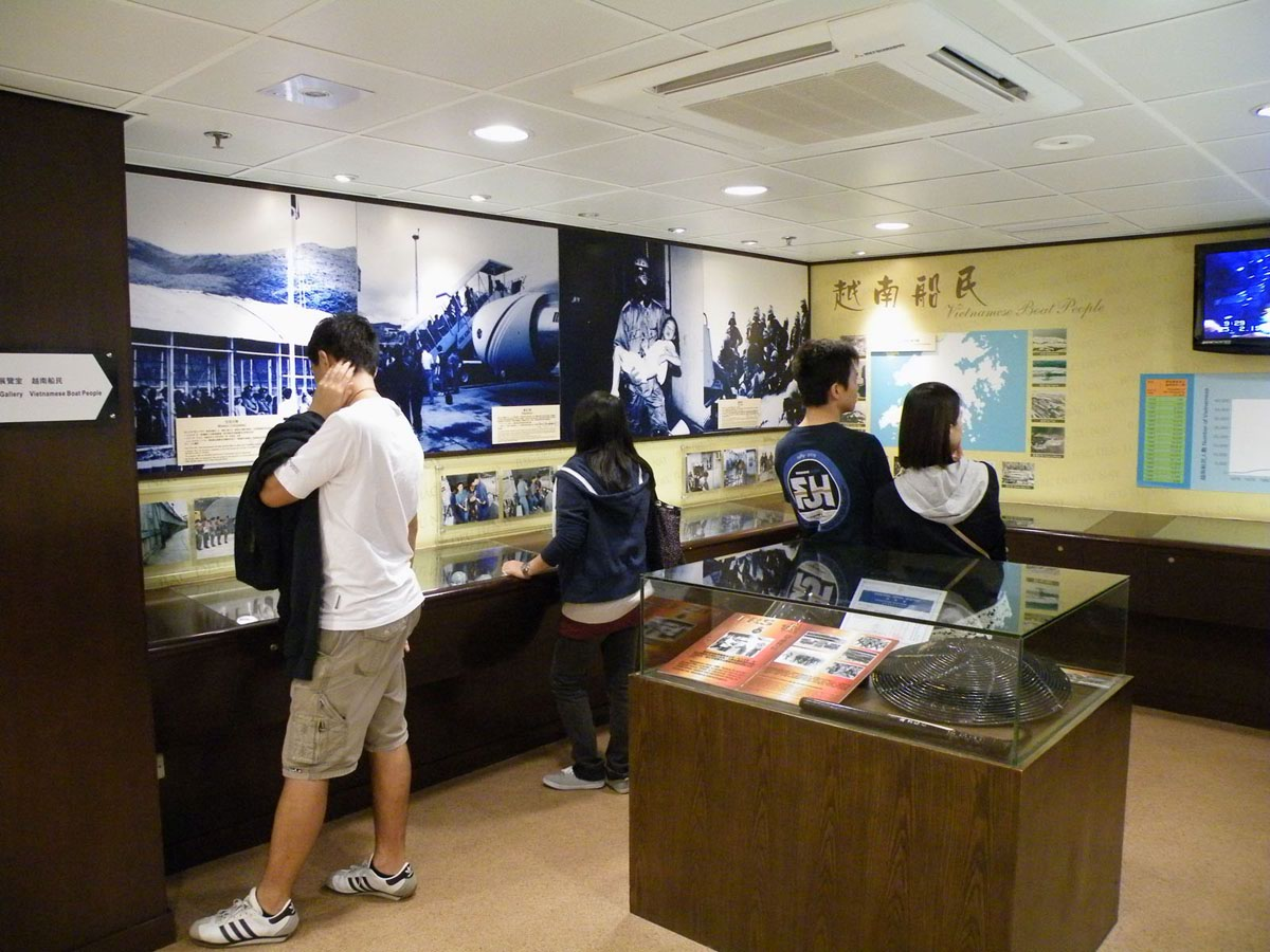 Hong Kong Correctional Services Museum